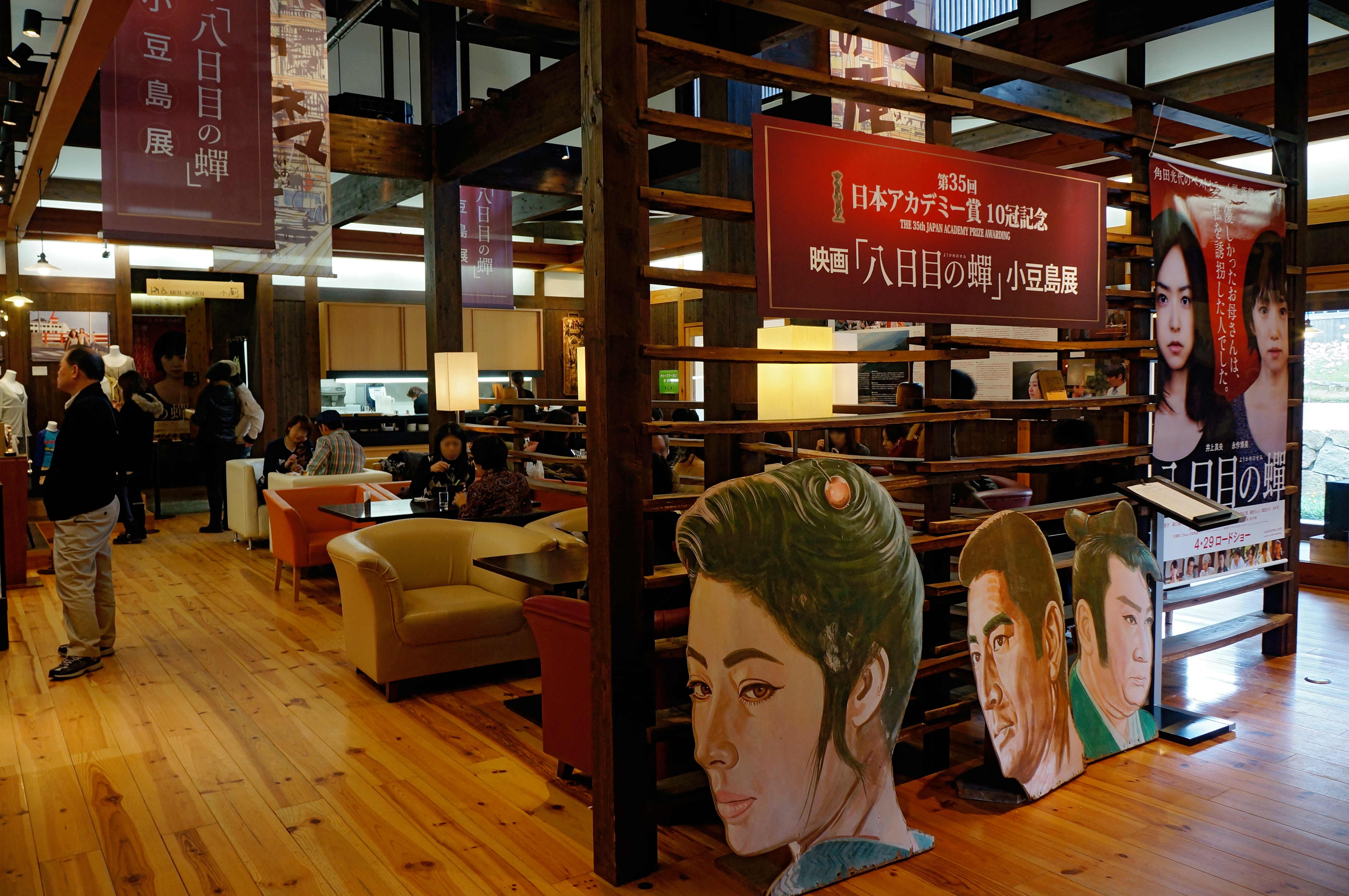 The amusement park of "Twenty-four eyes" in Shodoshima Island, Kagawa prefecture, Japan)